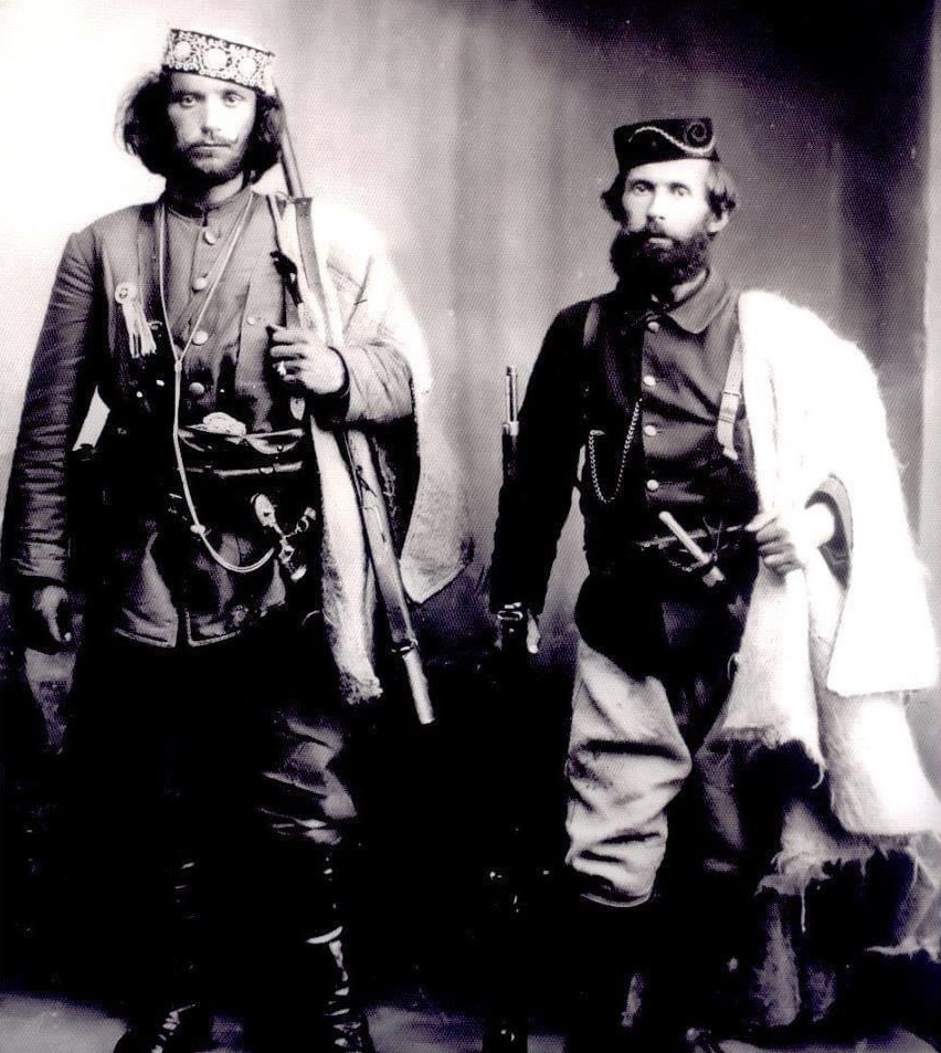 Albanian patriots and guerrilla fighters Cerciz Topulli and Mihal Grameno, during the anti-ottoman revolt in Gjirokater.